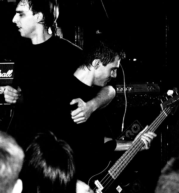 The Smithereens at Club Trash, Bollnäs Sweden April 7 1984